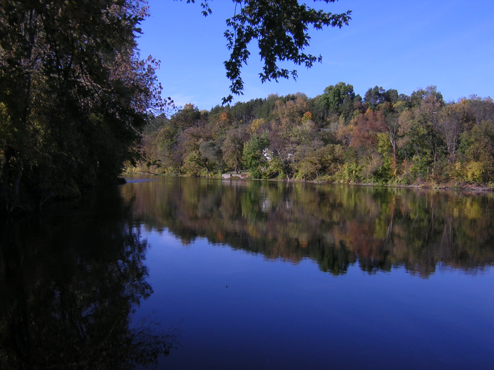 A scene from Ada, Michigan. Ada Township is a civil township of Kent County in the U.S. state of Michigan. As of the 2000 census, the township population was 9,882. The unincorporated community of Ada is located within the township on M-21 twelve miles east of Grand Rapids. Ada is the corporate home of Alticor and its subsidiary companies Quixtar and Amway. This image is of the Grand River just N of M-21